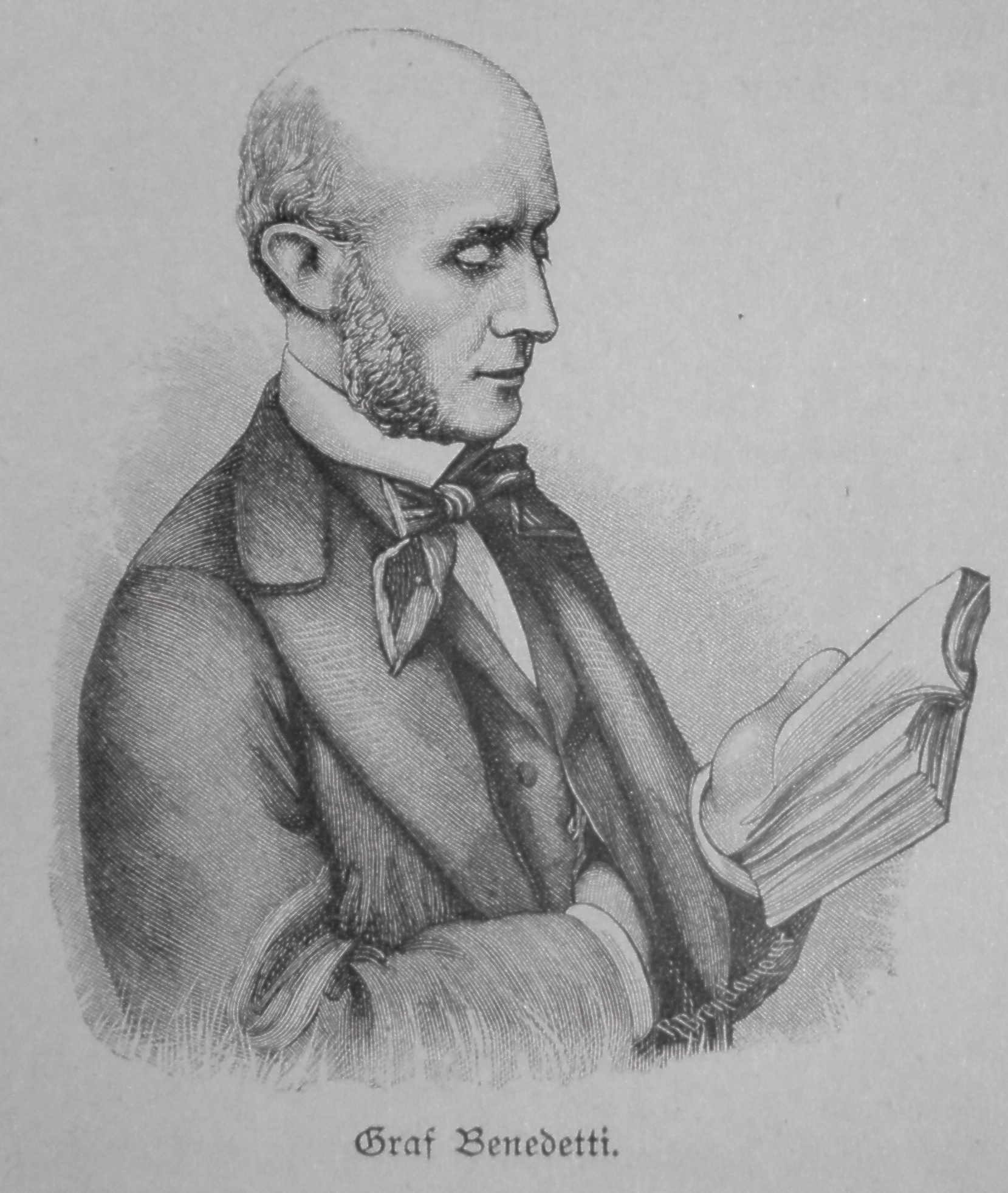 Earl Benedetti